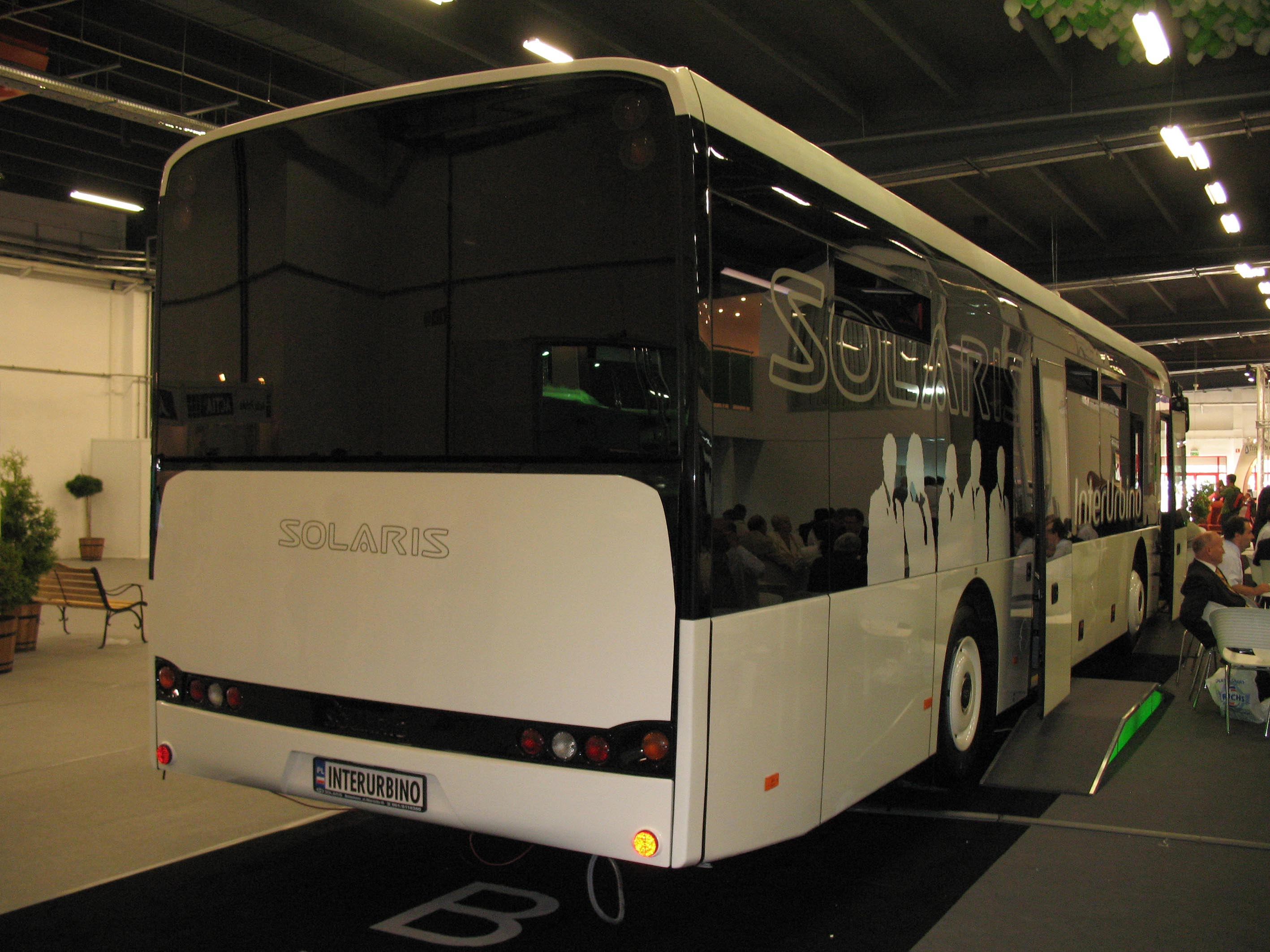 Solaris InterUrbino 12 intercity bus (prototype) in Kielce, Poland. Built 2009. Transexpo 2009.